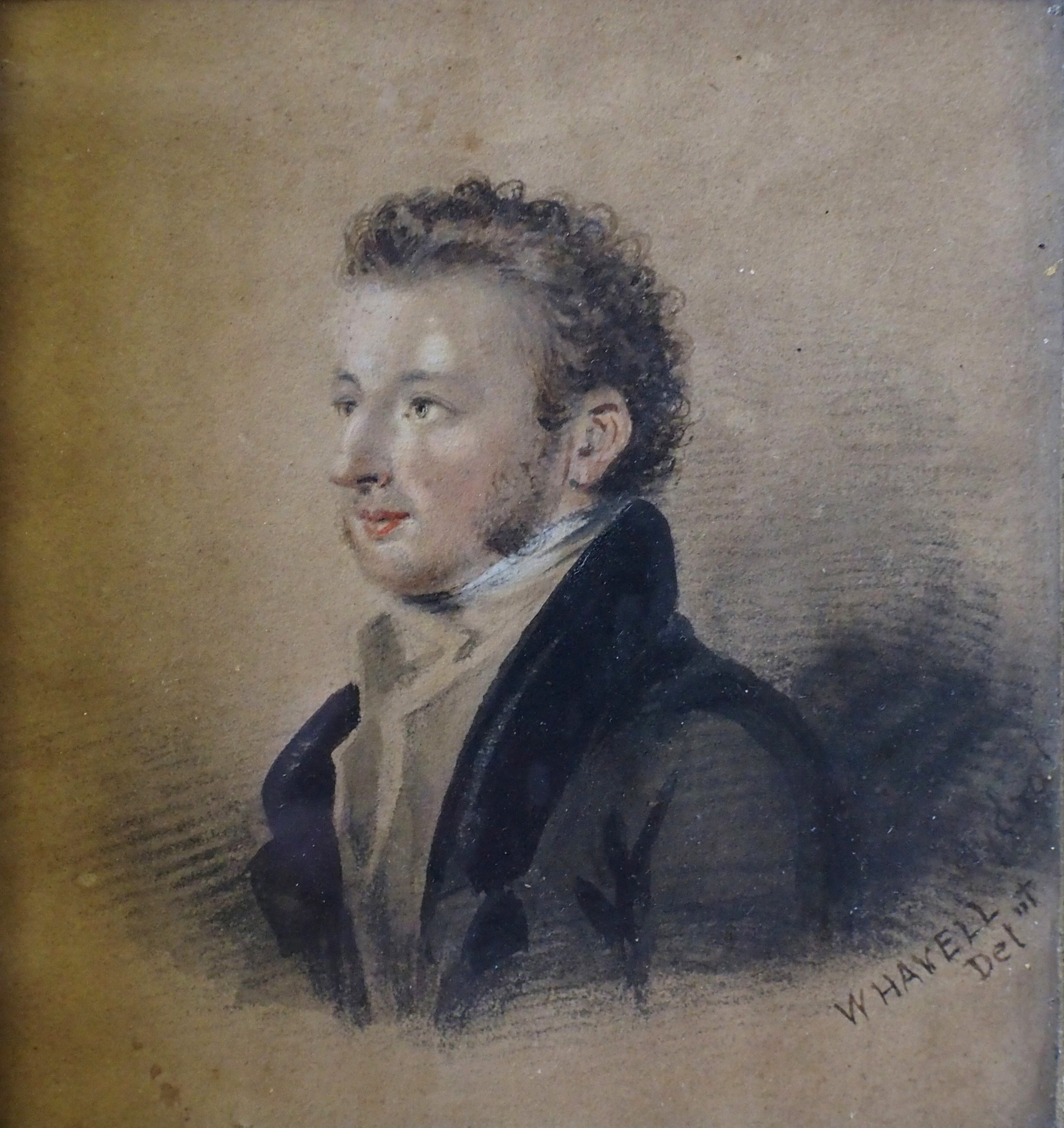 Watercolour of H. W. Voysey by William Havell - original description "Portrait of Henry Wesley Voysey at Hyderabad Pencil and watercolours, 4 ¼ x 3 ¾ in (10.8 x 9.5 cm) Signed, inscribed and dated ‘W HAVELL Delnt Hydrabad 1823’ Inscribed on old label attached to backboard ‘Henry Wesley Voysey MD of Aberdeen Asst Surgeon H M 66th Reg, on staff at Waterloo, mineralogist botanist & geologist to the great survey of India under Col Lambton in 1818 to 1824. Died in his palanquin April 19 1824 from jungle fever near Sulkea Ghat. The above Henry Voysey was my mother’s youngest [crossed out and replaced with ‘eldest’] brother. Mary Ellison’"